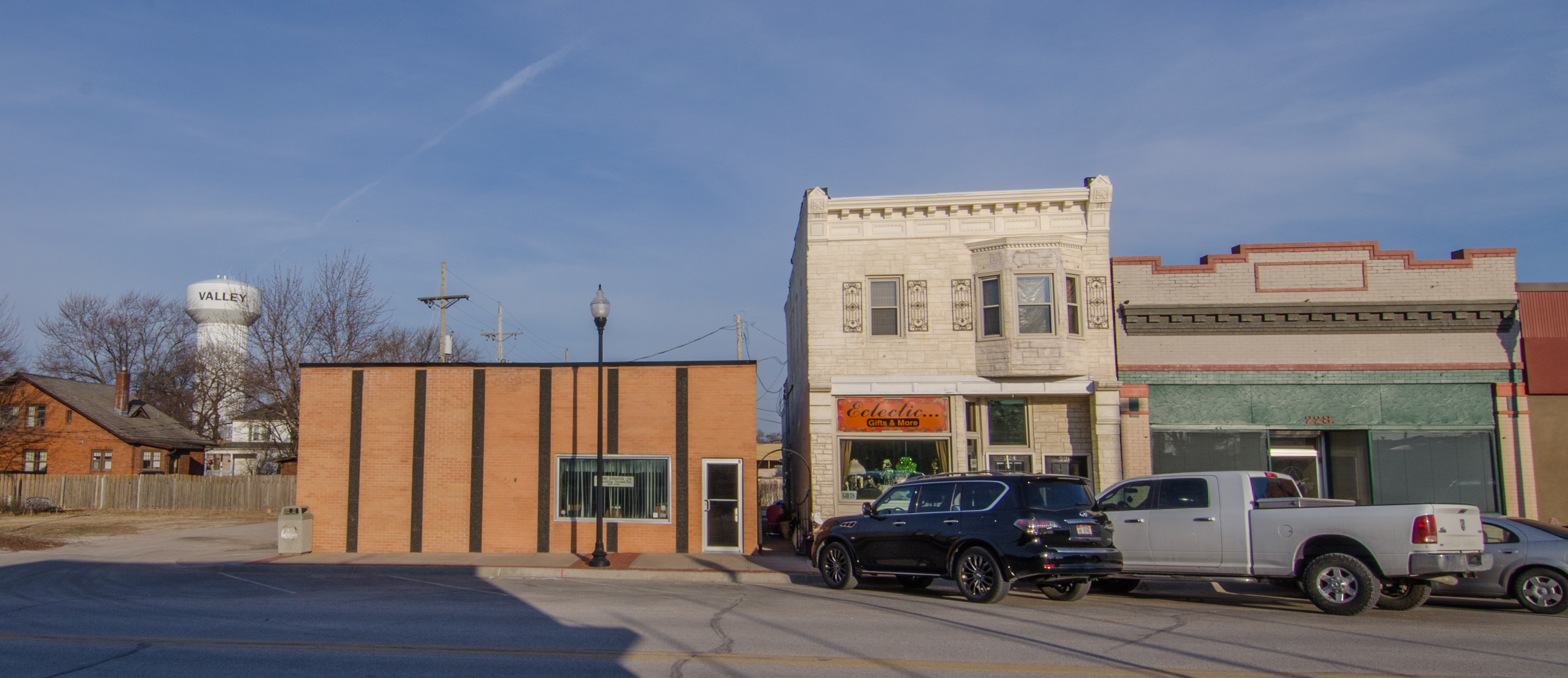 Downtown Valley Nebraska and Water Tower